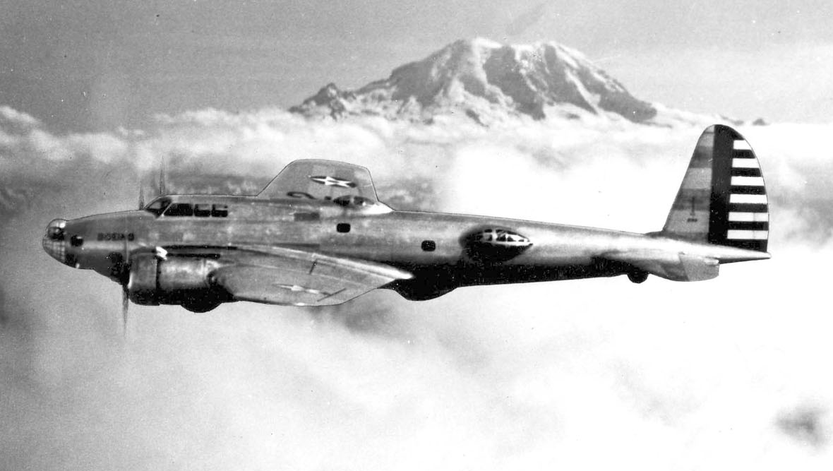 The Boeing Model 299 in flight in 1935.